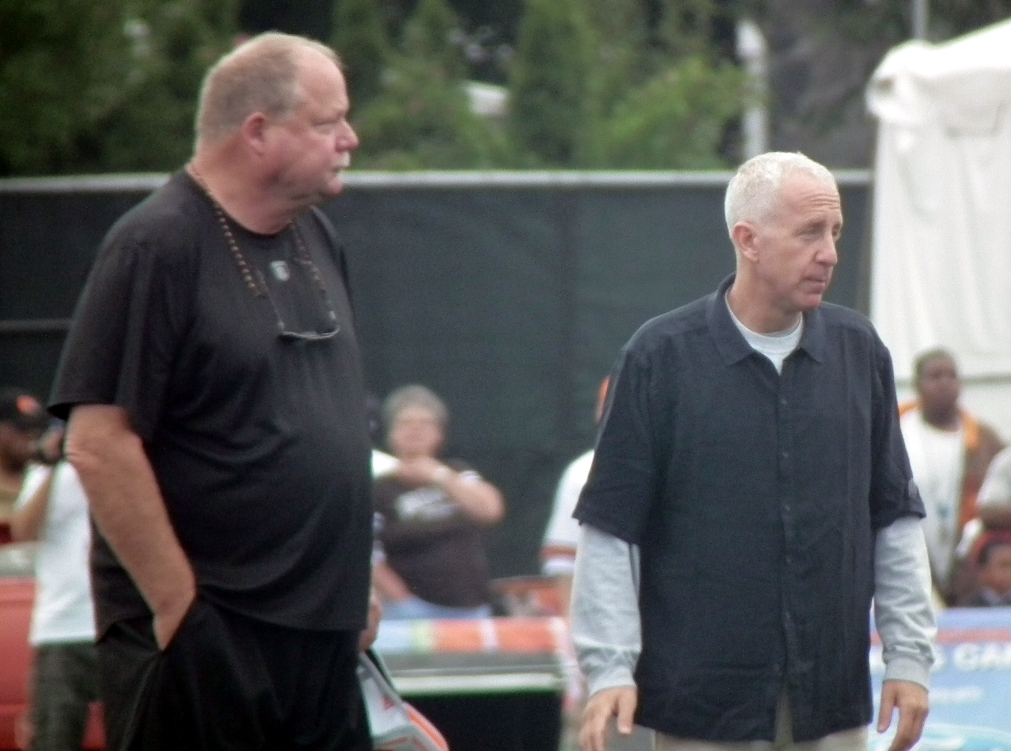 GM and owners of the Cleveland Browns